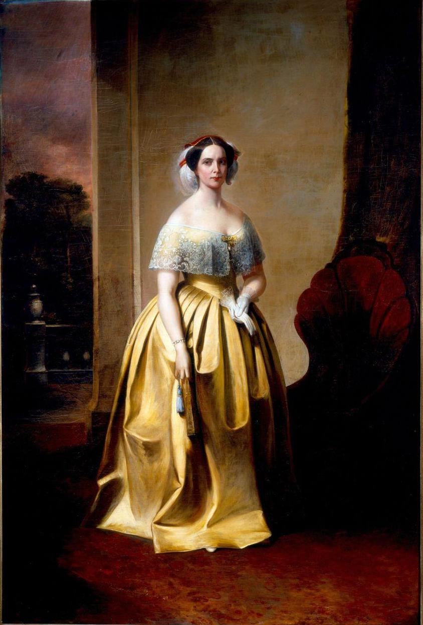 Harriett Lowndes Aiken 1812–1892